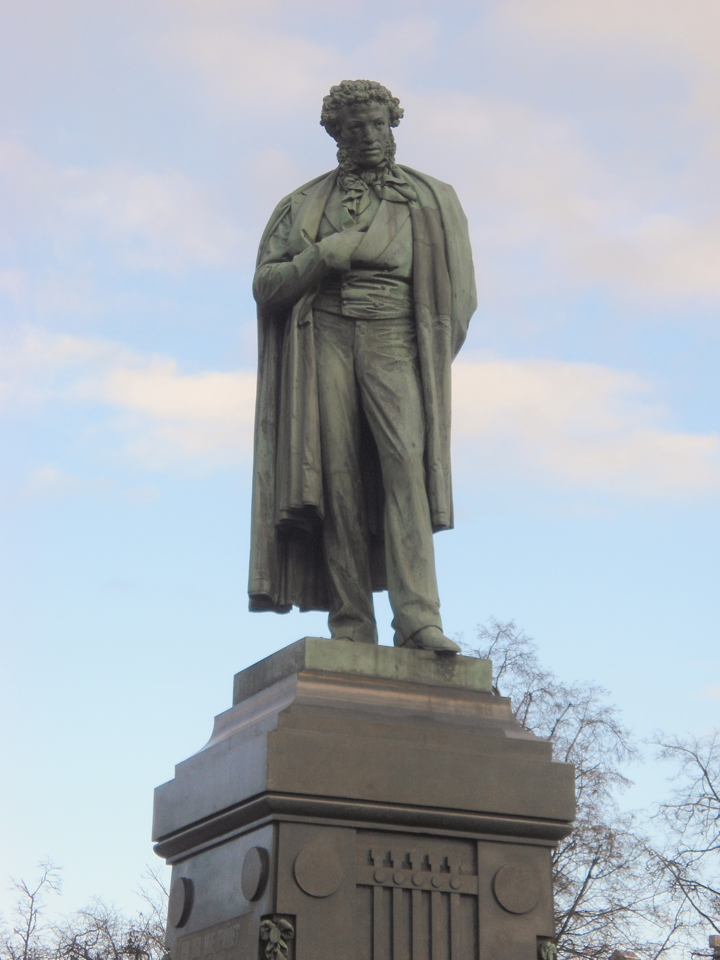 Monument to Alexander Pushkin in Moscow (on Pushkin Square)